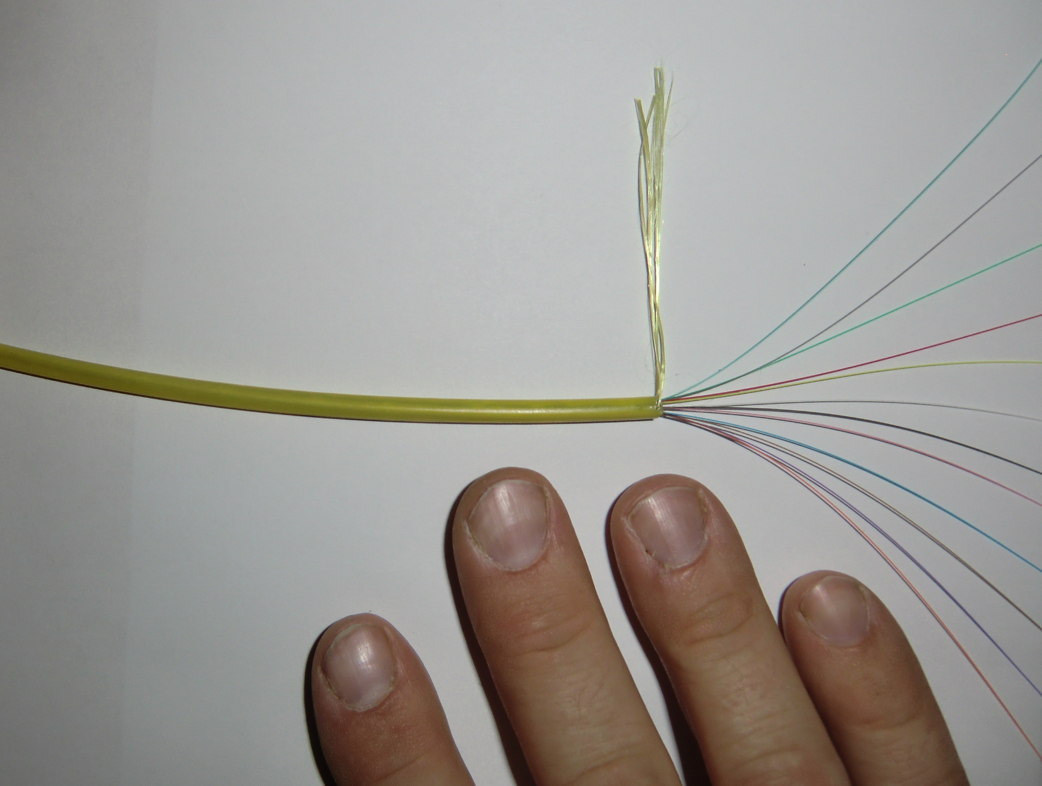 The cable G652D including 12 single-mode optical fibers.